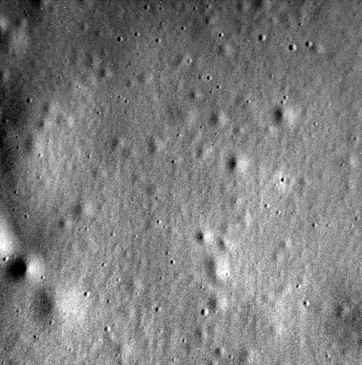 The last image transmitted by NASA's MESSENGER probe before it crashed on the surface. The image represents an approximately 1km square area of the planet.